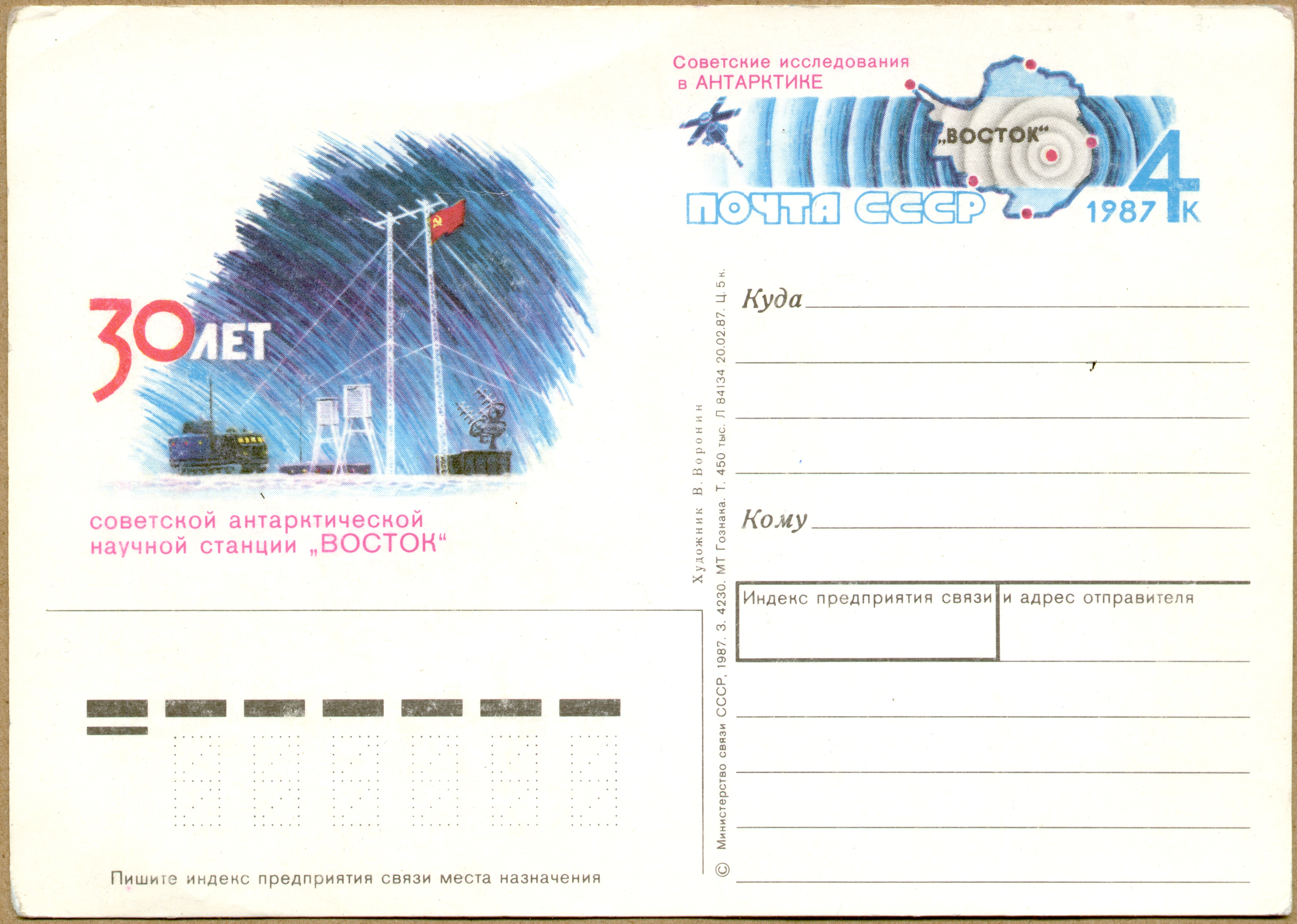 USSR 30-year Annivesary of Soviet Antarctic Science Station Vostok Postcard, 1987-02-20